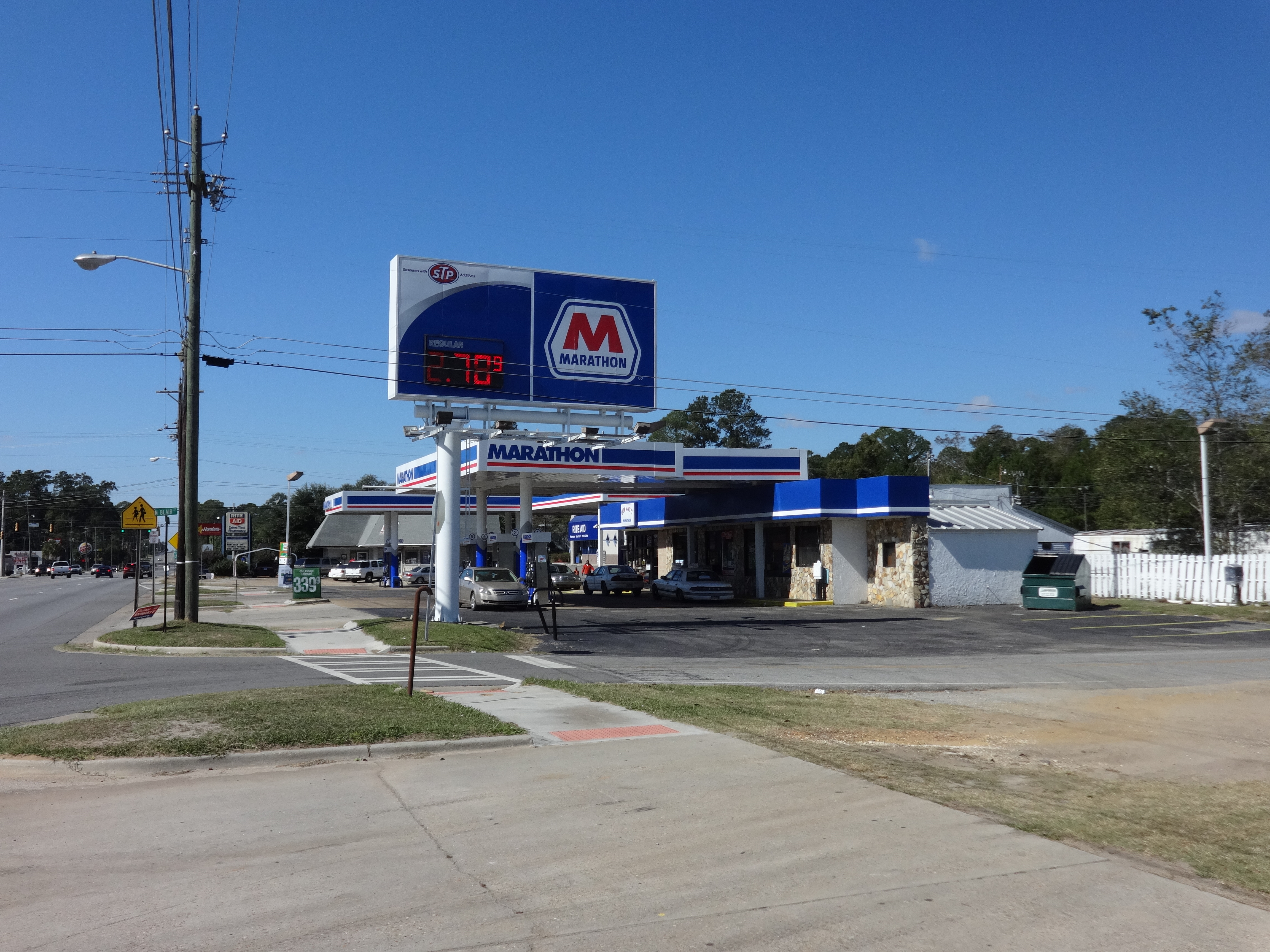 Marathon Gas, Quitman, Brooks County, Georgia